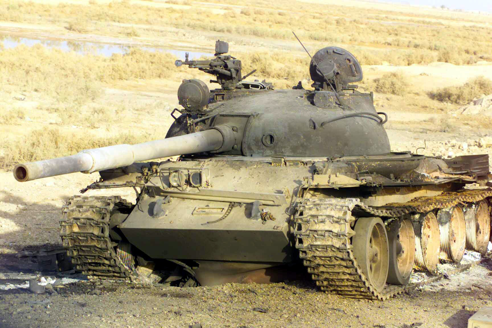 T-62 tank. [Misidentified as T-55 in the original caption: “No longer a danger, a destroyed Russian made T-55 Main Battle Tank (MBT) sits along Highway 6, Iraq, during Operation IRAQI FREEDOM.”]